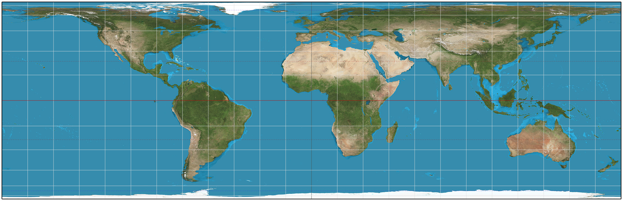 The world on Lambert cylindric equal-area projection. 15° graticule. Imagery is a derivative of NASA’s Blue Marble summer month composite with oceans lightened to enhance legibility and contrast. Image created with the Geocart map projection software.